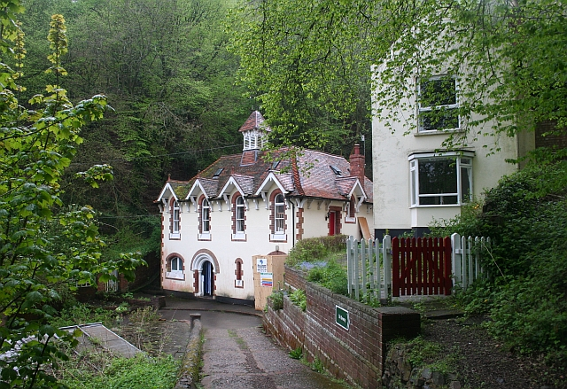 The Holy Well at grid reference SO770423 in Malvern Wells